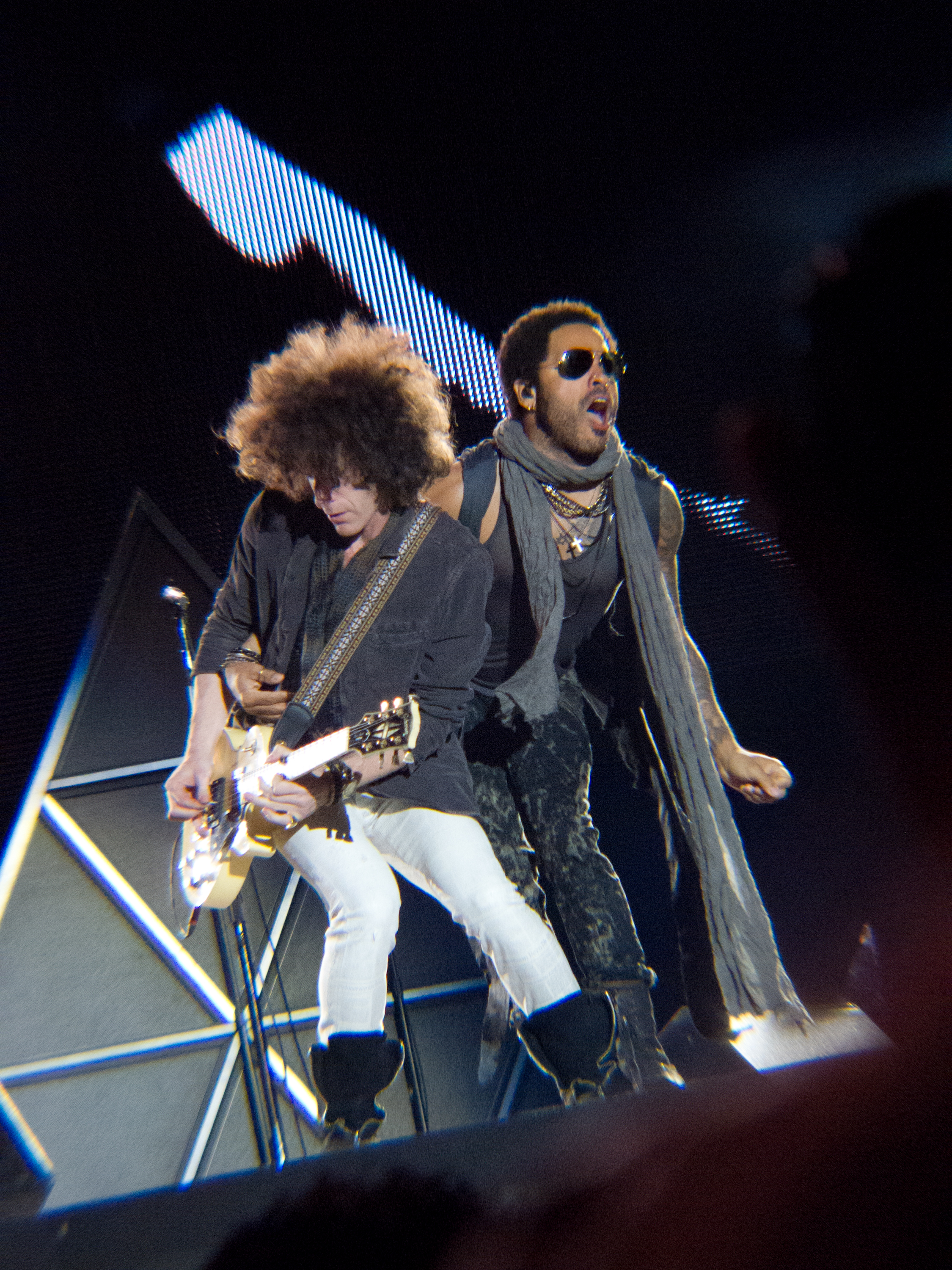 Lenny Kravitz and Craig Ross live in Rock in Rio Madrid 2012.